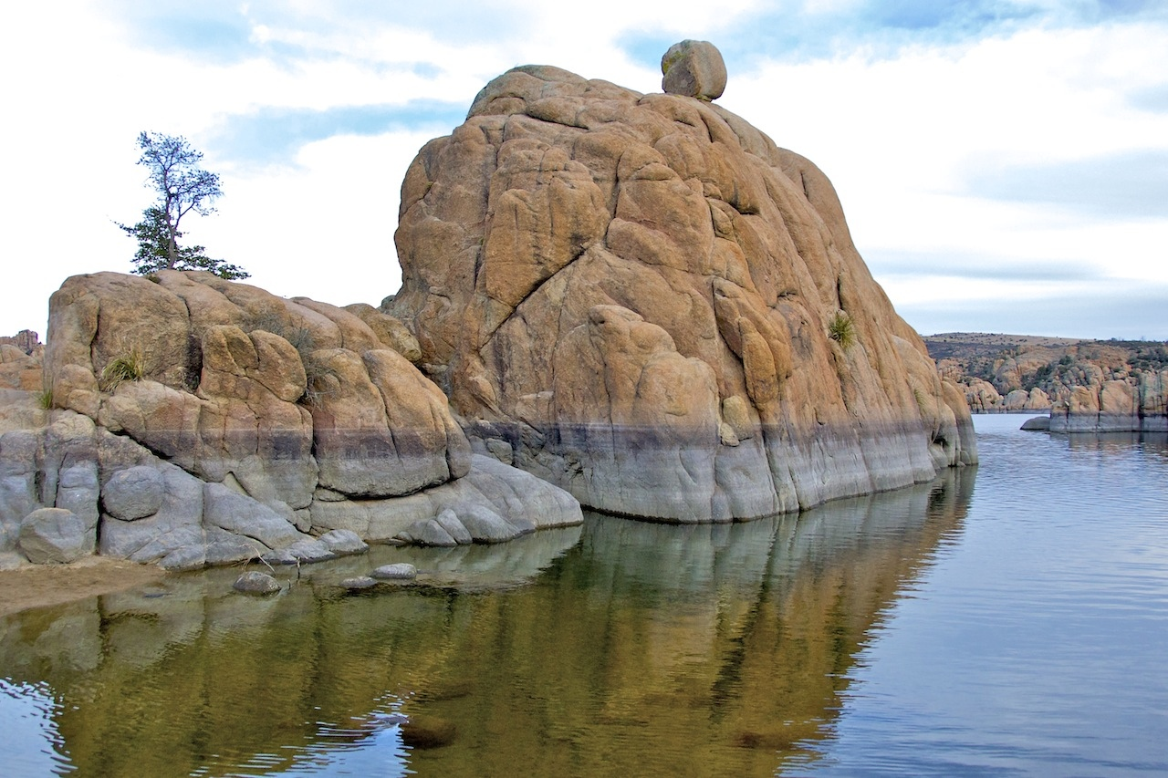 Watson Lake, outside Prescott, Arizona